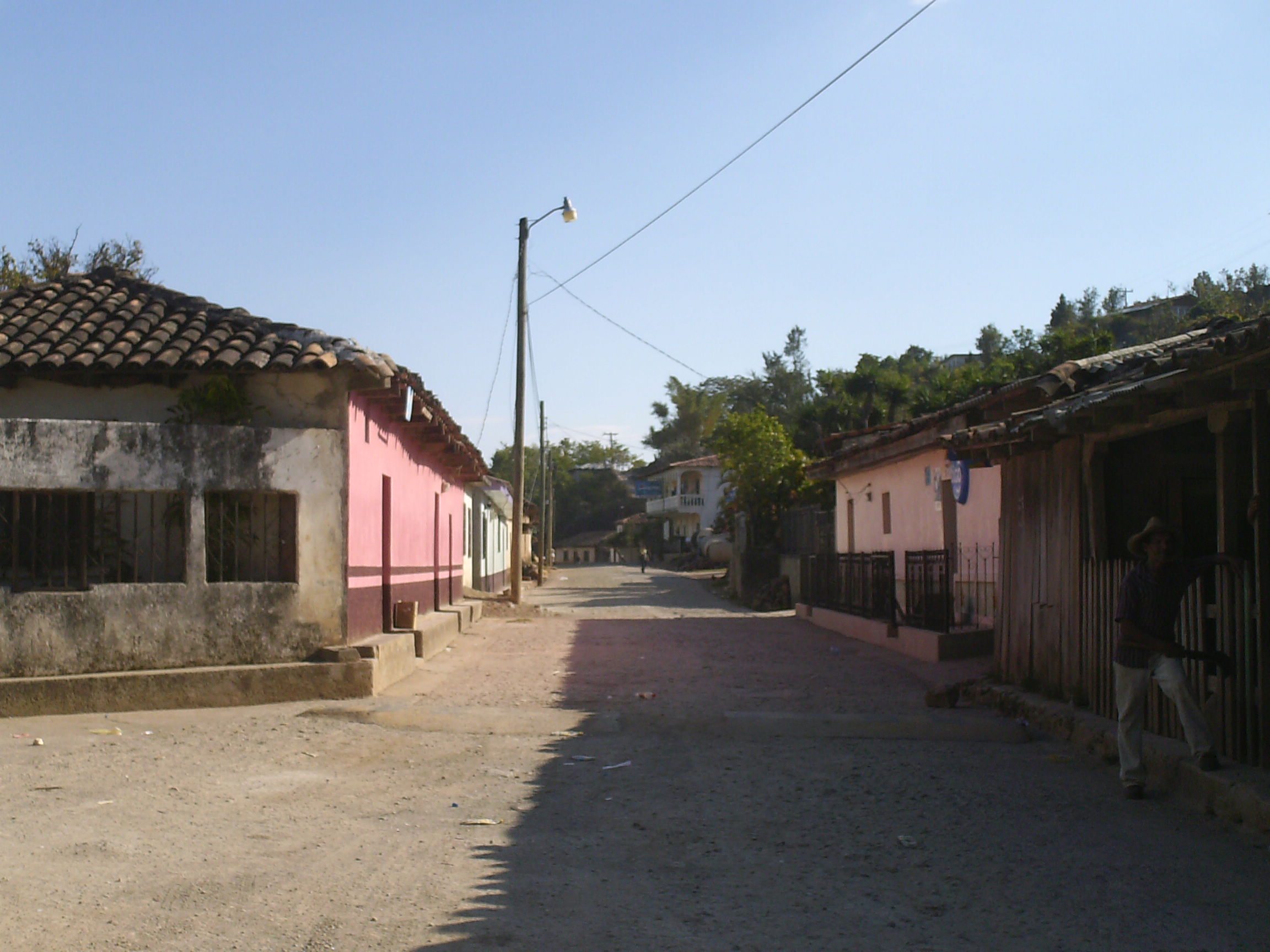 Valladolid, municipality in the Honduran department of Lempira.